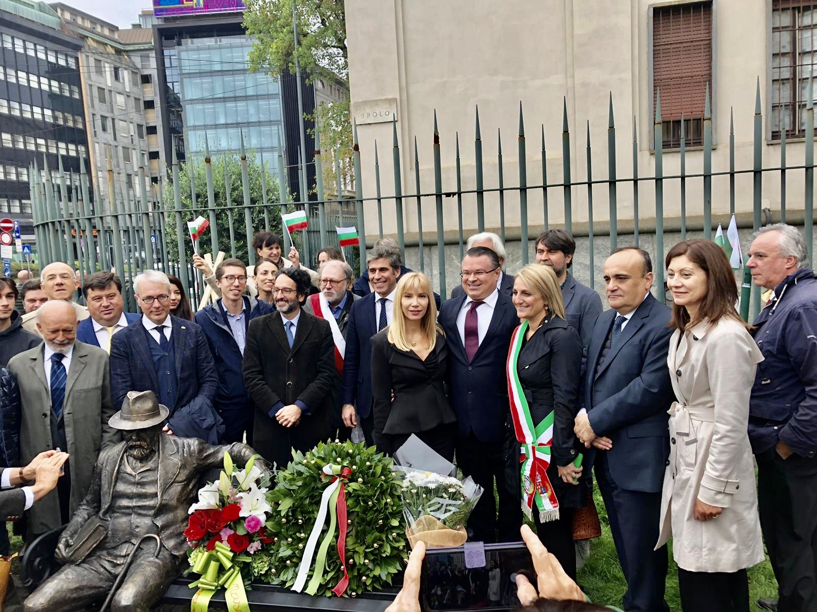 Inaugurazione panchina monumentale in onore e memoria al poeta bulgaro Pencho Slaveykov